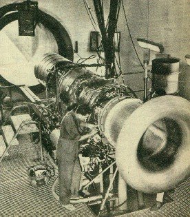 The Egyptian E-300 engine during test